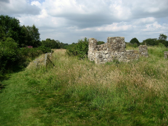 Old Grandstand Oswestry Race Course This is all that there is left of the grandstand that once dominated Oswestry Racecourse. Offas's Dyke National Trail, makes a slight detour around what is left of the building.